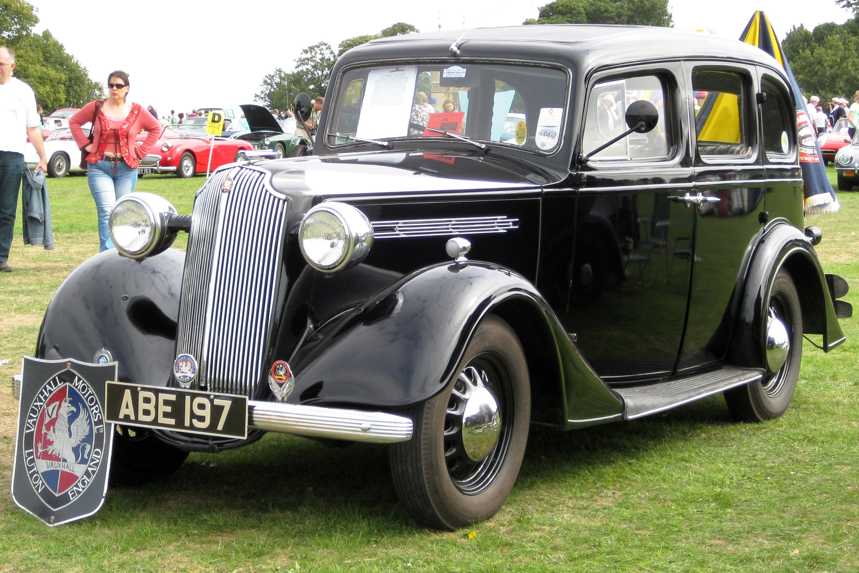 Vauxhall 14 - 6 also known as the Vauxhall Light Six, and part of the D series which comprised the 12 and 14 HP cars. The HP reference is, of course, to fiscal horsepower and had no precise relationship with 'actual' bhp. The Vauxhall 14 had an engine capacity of 1781cc.